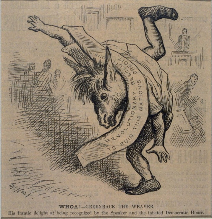 James B. Weaver depicted as an ungainly donkey.